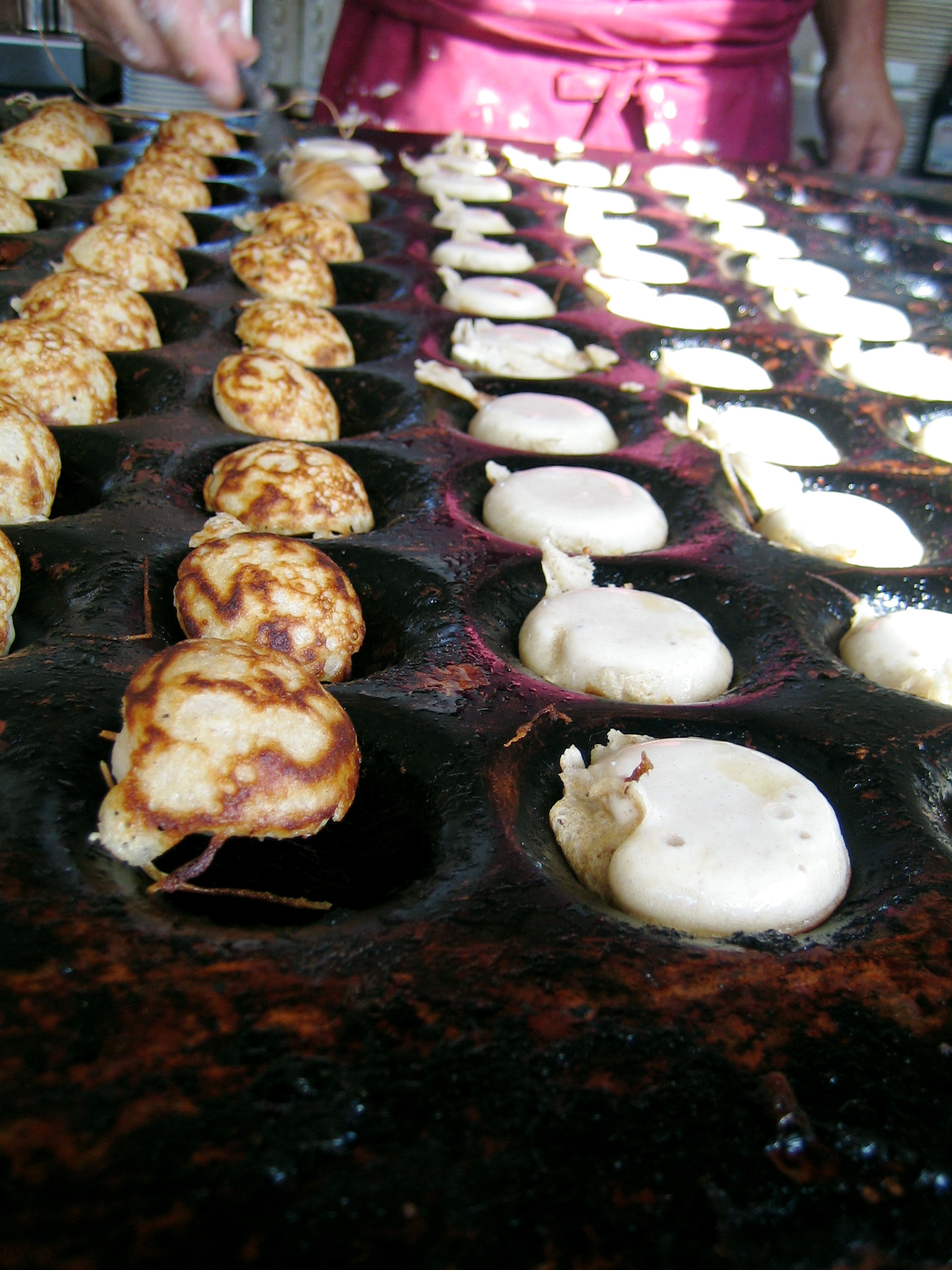 Poffertjes are small pancakes eaten as snack or dessert. As snack eaten with butter and sugar as dessert with chocolate, cream, icecream and/or fruit. The Netherlands